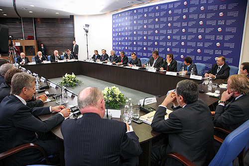 ST PETERSBURG. Meeting with chief executives of Russian and foreign energy companies.